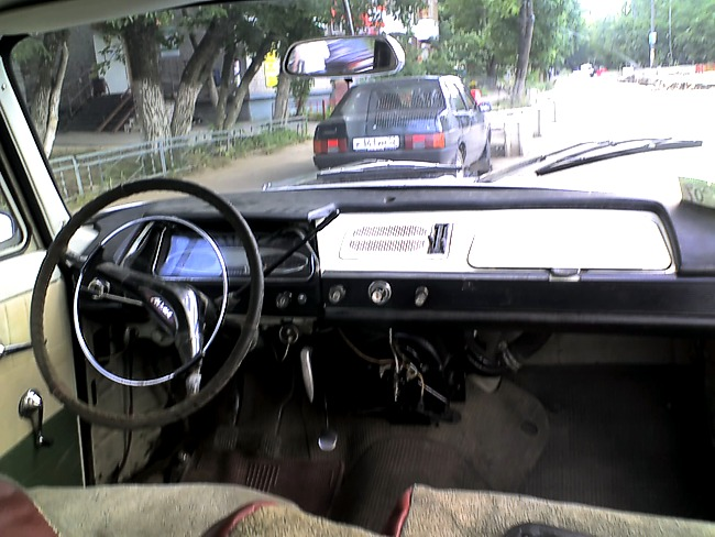 Interior of a classic Soviet car, Moskvitch-408. Produced in 1968, photographed in 2007.